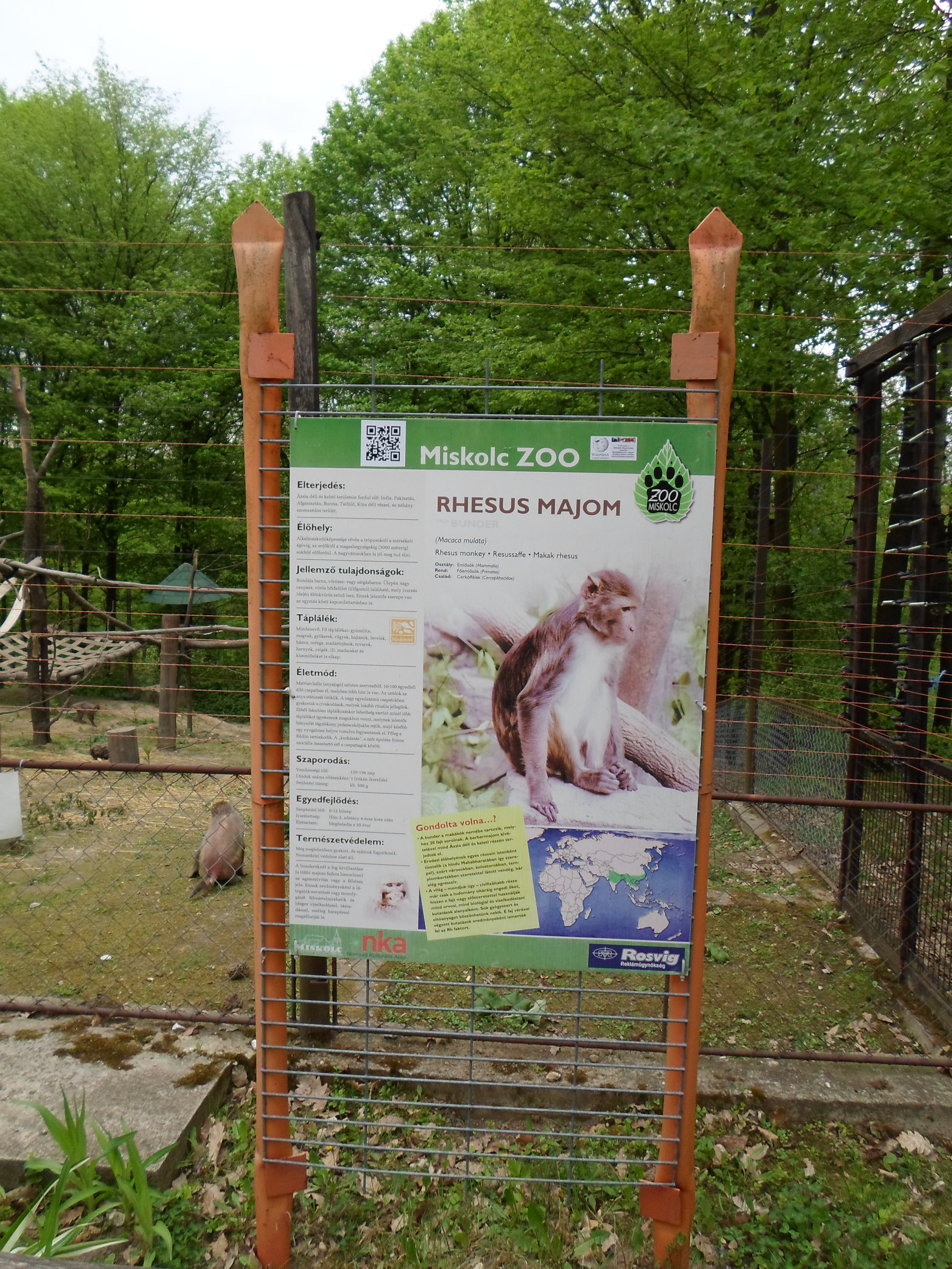 Rhesus macaque (Macaca mulatta) in Miskolc Zoo